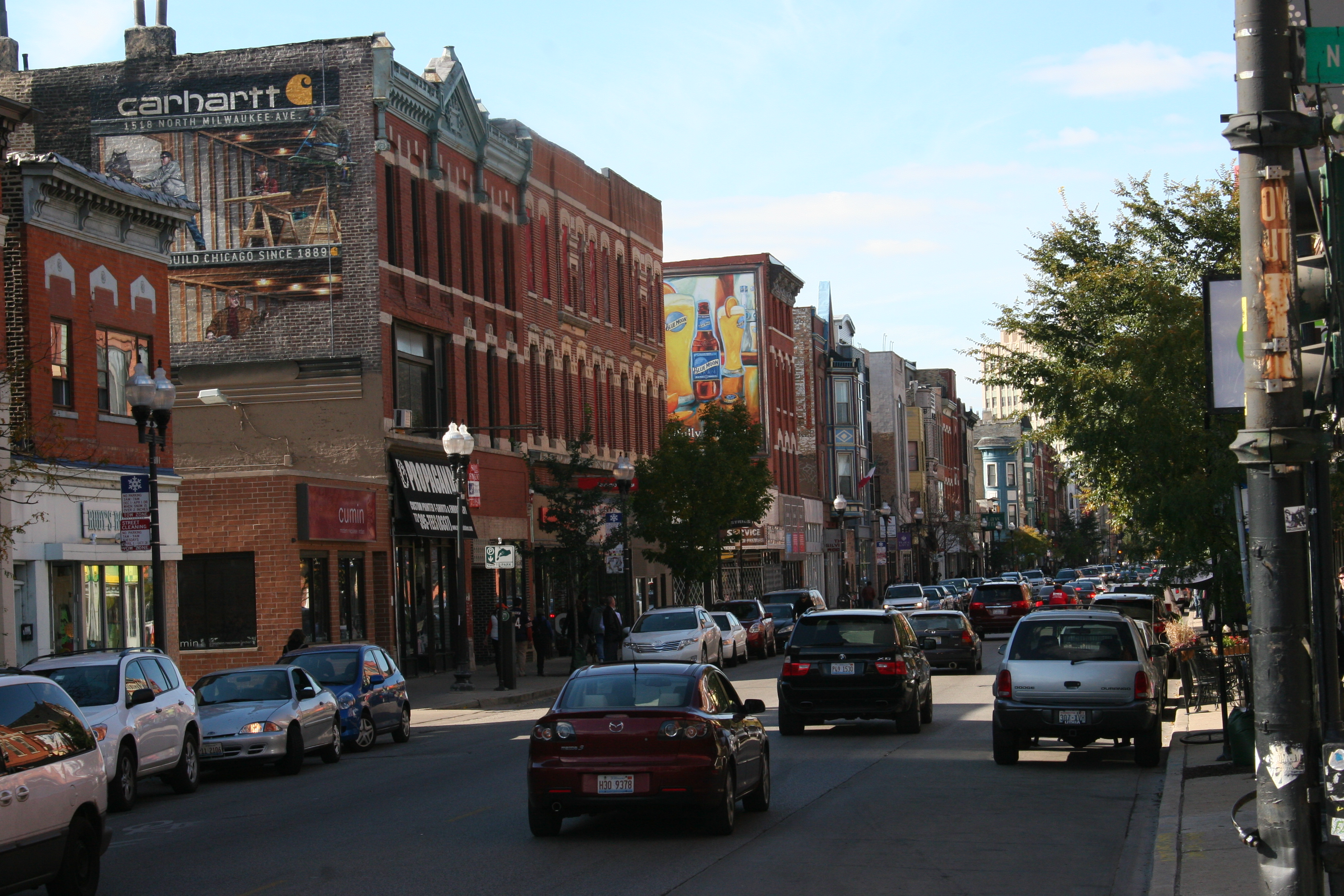 Milwaukee Avenue District in Wicker Park, Chicago, IL